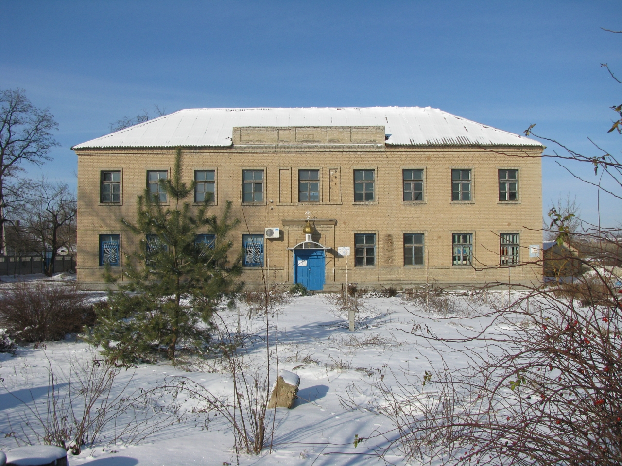 Church (former kindergarten) in Melitopol, Ukraine